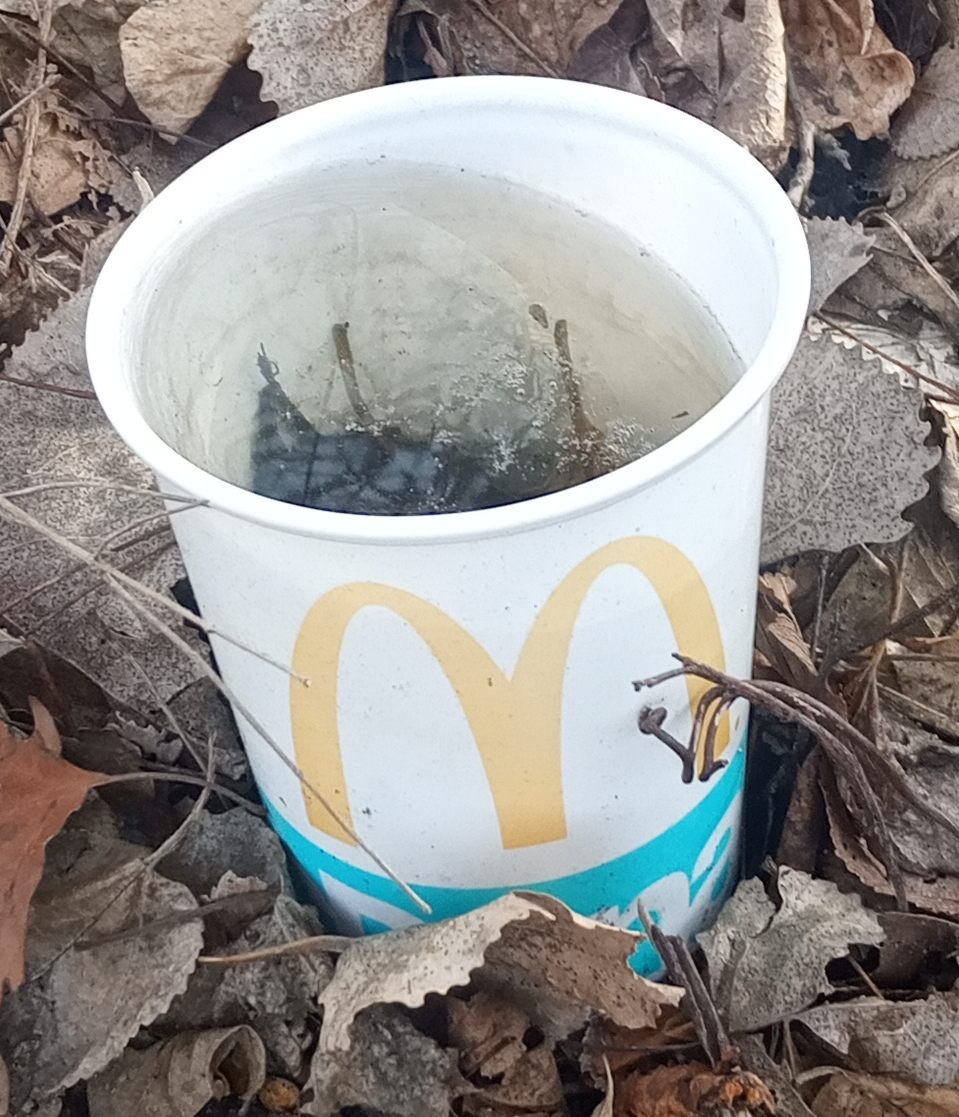 McDonald's cold beverage cup embedded upright in a pile of snowplow debris and filled with stagnant water, on the south side of US Route 12 in Gary, Indiana. Such small pockets of stagnant water provide ideal breeding grounds for mosquitoes, although due to the cold weather this one is not yet in use.